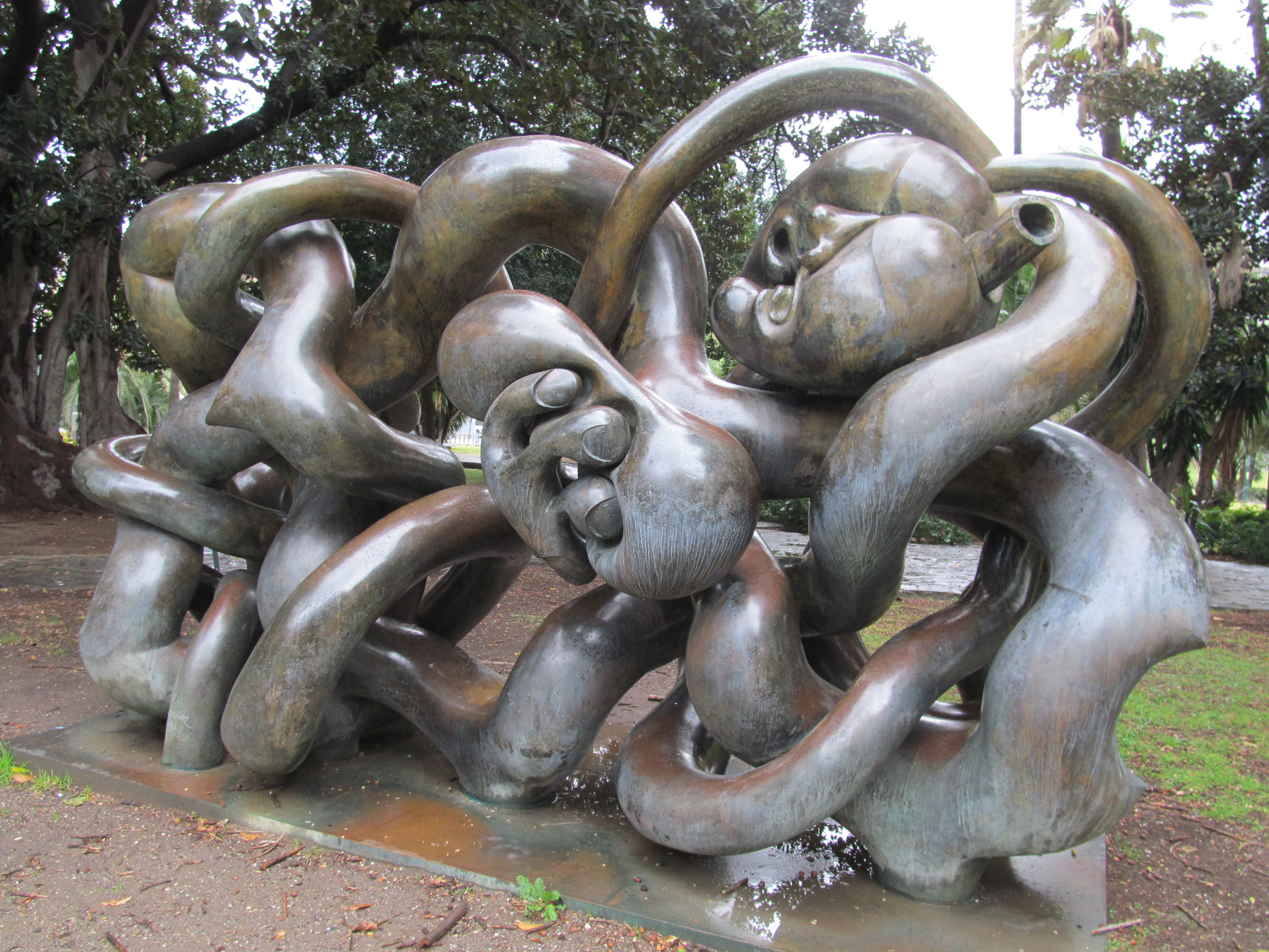 Sculpture in memory to "'Pablo Ruiz Picasso"', inaugurated in 1977 by sculptor Miguel Ortiz, his work called "Siextasis", it is located in the gardens of Picasso in Malaga. This work eepresents "two bodies - one female and one male - embraced with a heart, whose arteries around them in a progressive composition".